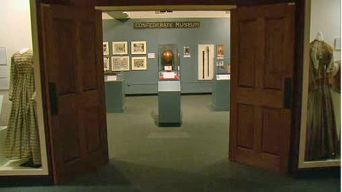 Museum of the Confederacy in Richmond, Virginia (VOA - A. Greenbaum)